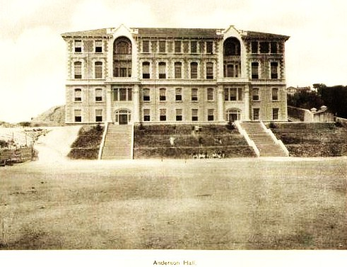 Robert Kolej (Boğaziçi Üniversitesi) Anderson Hall old